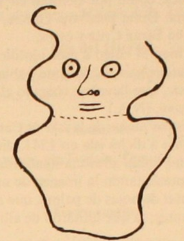 Reproduction of the Guanche "Guatimac" idol from Tenerife by Juan Bethencourt Alfonso in his work "Historia del Pueblo Guanche". "One that we examined from the pharmacist Don Ramón Gómez of Puerto de la Cruz, was found in 1885 in a cave in the Erques ravine in Fasnia, wrapped in skins, like the rest we found, is a little smaller, although the same family, a guatimac, or as the commoners like to say, "mud figurine", that the guañameñe and "samarin" priests used to hang around their neck as a pectoral. The symbol or idol we are dealing with is made of fired clay, although the firing is uneven and the colour is yellowish-white. The figurine is incomplete since a small piece of what can be called a cranial vault or a helmet, as indicated by the interruption of the profile, and the dotted line indicates the site, towards the neck, where there's a hole to pass a strap in order to wear it. The figurine is flattened front to back and is 6 to 7 millimeter thick, except at the base, where it is a centimeter thick." — Juan Bethencourt Alfonso